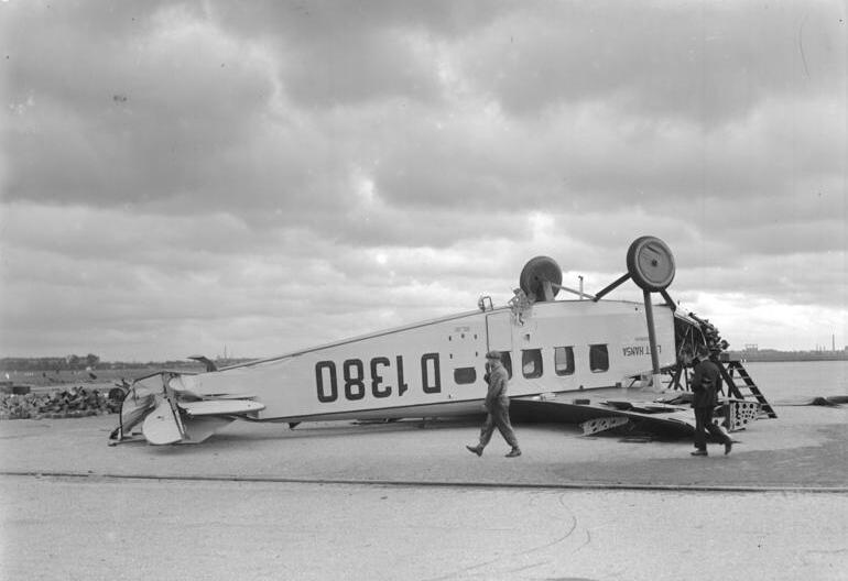 "Storm causes heavy destruction at the central airport Berlin-Tempelhof" ...At the central airport Berlin-Tempelhof an aircraft hangar was destroyed and aircraft were flipped over... The image shows storm damage to a Focke-Wulf A17a (D-1380 operated by Lufthansa as the 'Oldenburg')